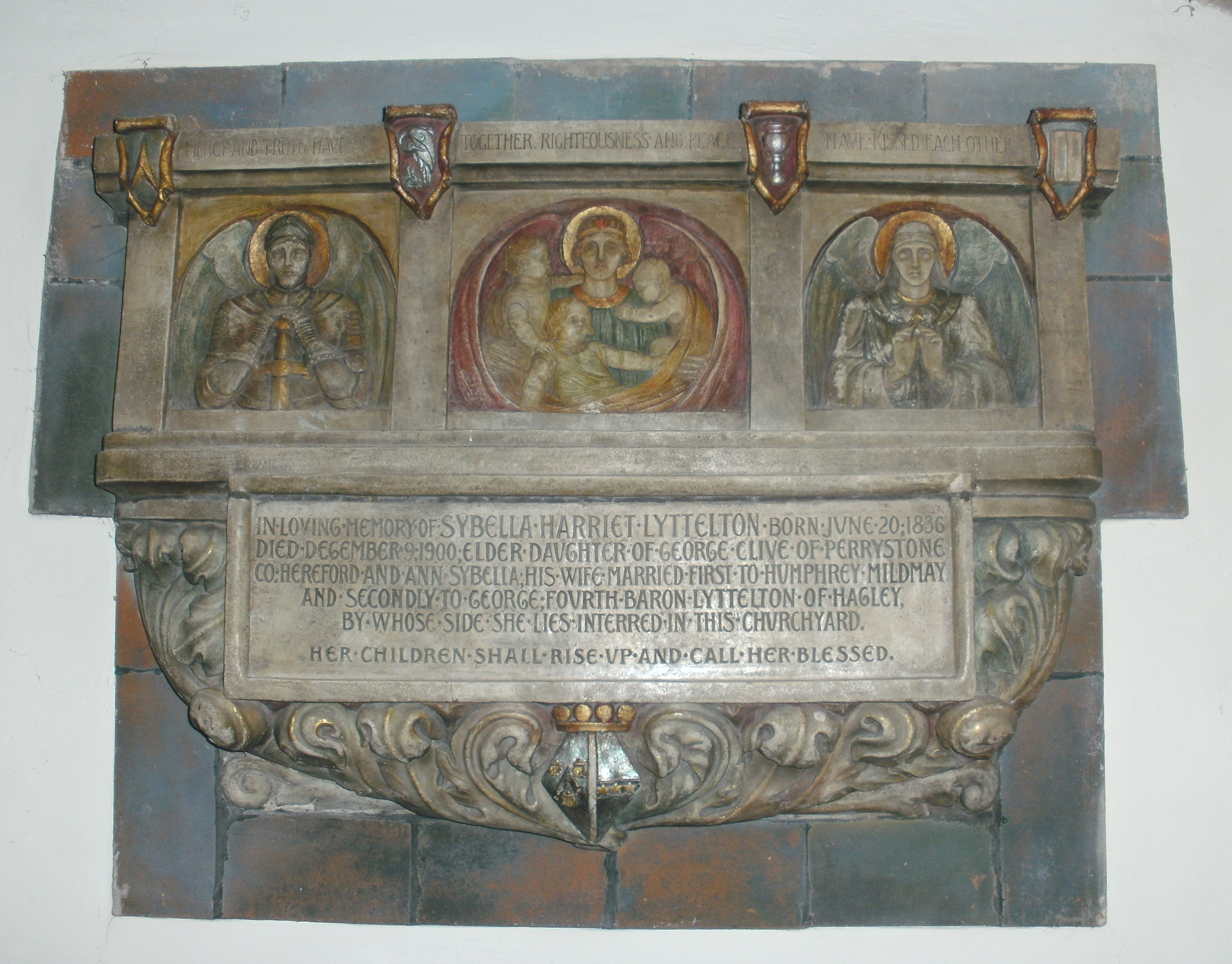 Hagley, Worcestershire, St John the Baptist Church - interior, memorial to Sybella Harriet Lyttelton (née Clive, 1836–1900) , second wife of George Lyttelton, 4th Baron Lyttelton